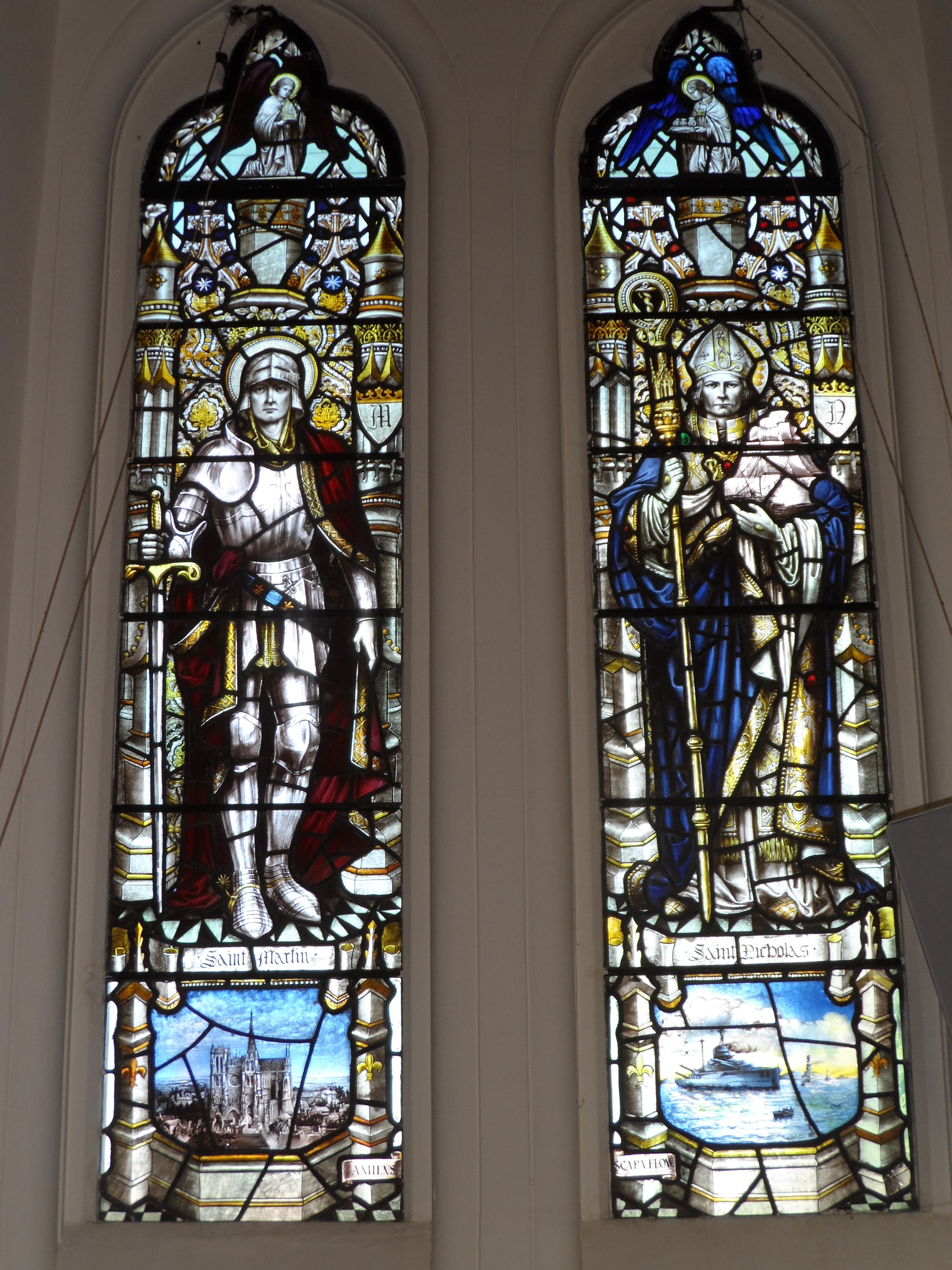 Main WWI memorial window, with detail including Amiens and Scapa Flow, in Busbridge Church, Surrey, UK. The left-hand pane shows Saint Martin above Amiens and its cathedral. The right-hand pane shows Saint Nicholas above Scapa Flow and battleships of the Grand Fleet.